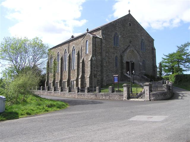 Newcumber Presbyterian Church It is located at Killaloo.